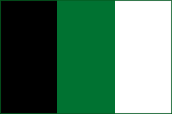 Colors FC «Krasnodar»